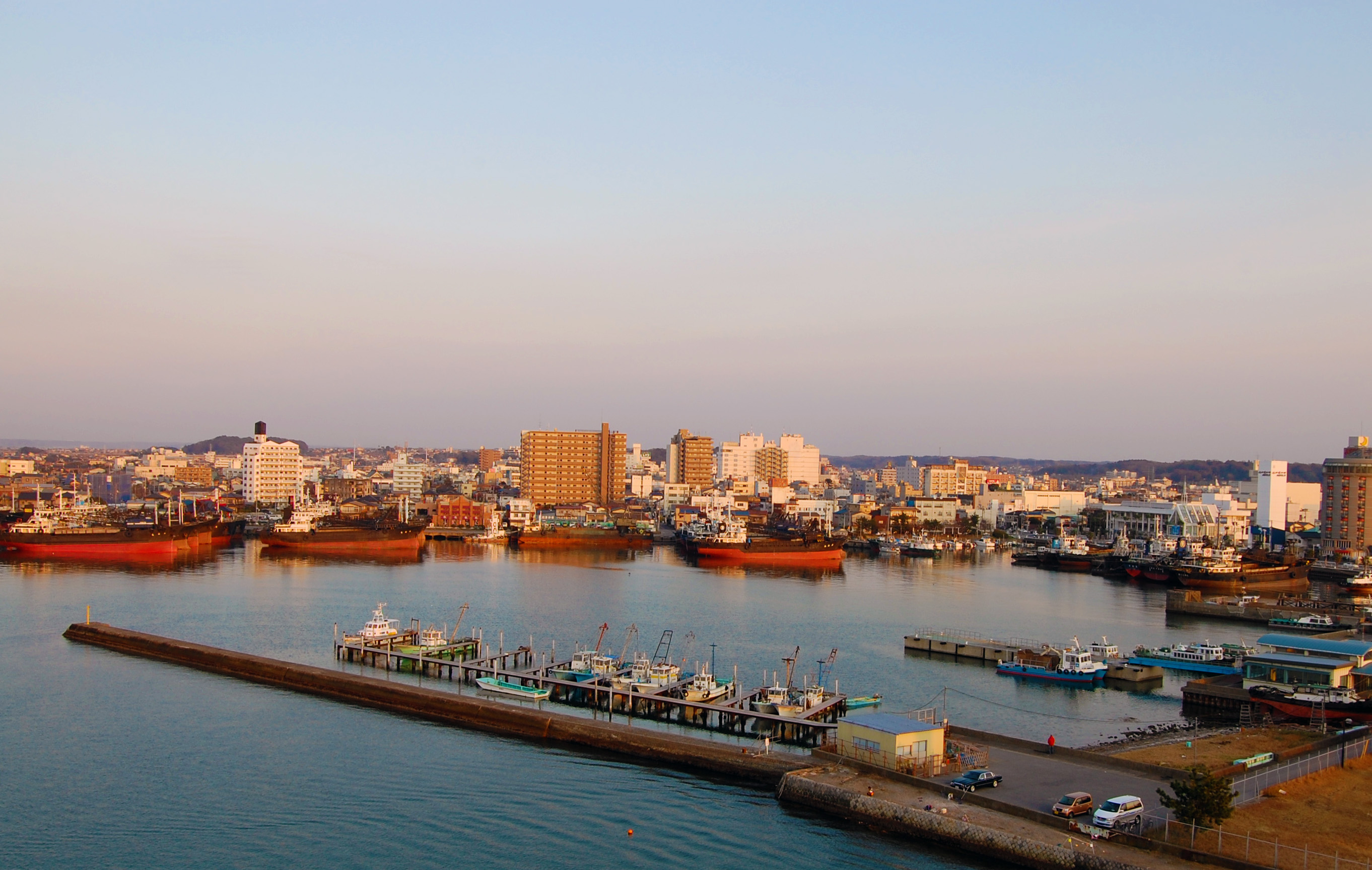 Kisarazu Port. This photographs from NakanoshimaOhashi toward the Kisarazu station